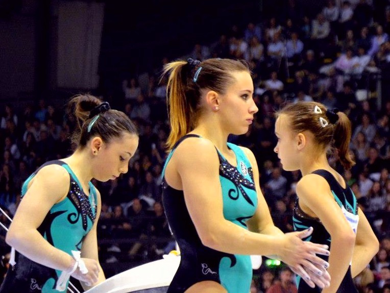 Sofia Busato, Erika Fasana and Chiara Imeraj. Ancona, 9th february 2013